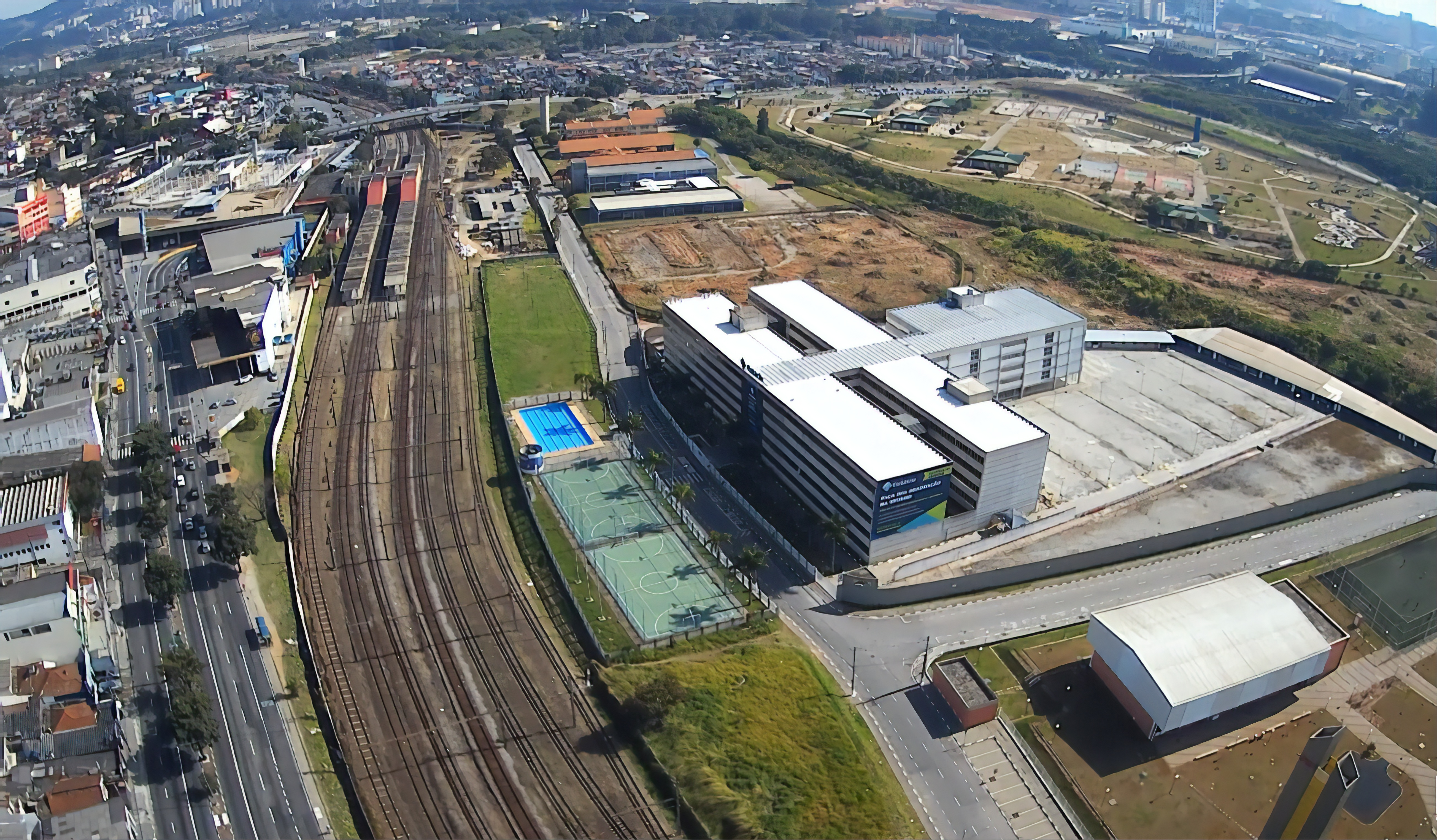 Photo taken through the Drone DJI F550, showing the Rodoferroviário Terminal and the Educational Pole formed by ETEC, FATEC, SESI and the University Estácio de Sá.